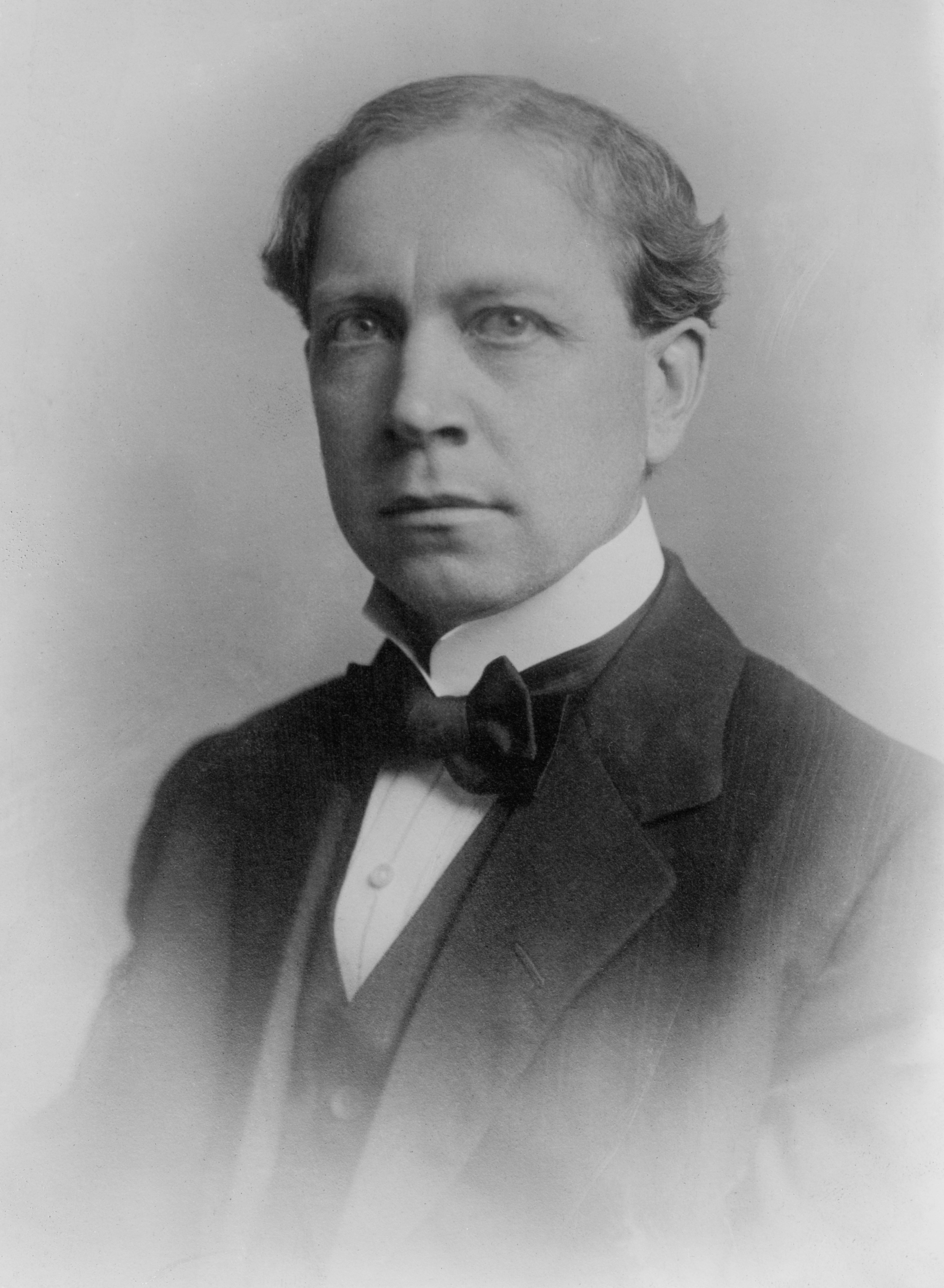 Art Young